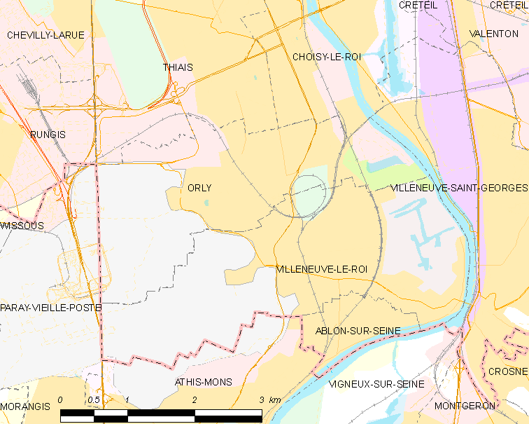 Map of French municipality Orly